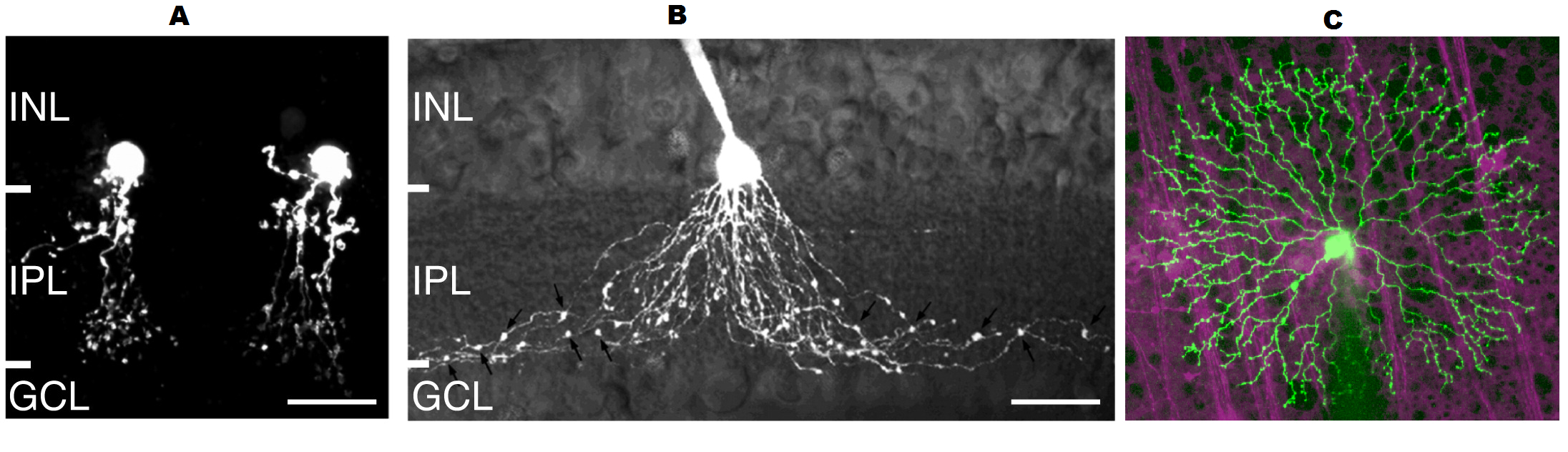 Starburst amacrine cells. Adapted and modified from "A Dendrite-Autonomous Mechanism for Direction Selectivity in Retinal Starburst Amacrine Cells"